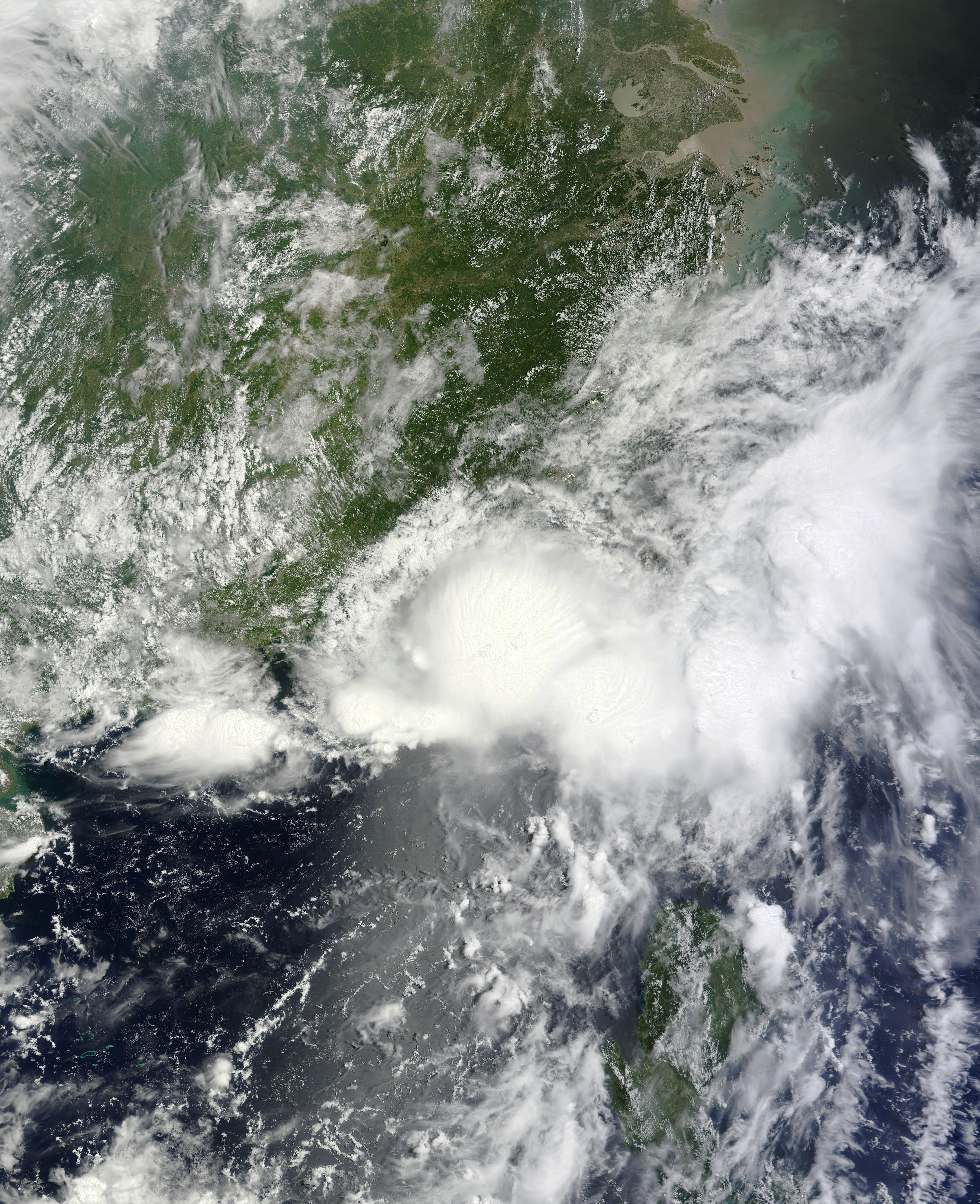 Tropical Storm Cimaron on July 18, 2013